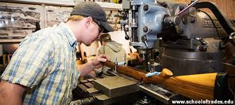 Gun Smithing Program at Murray State College